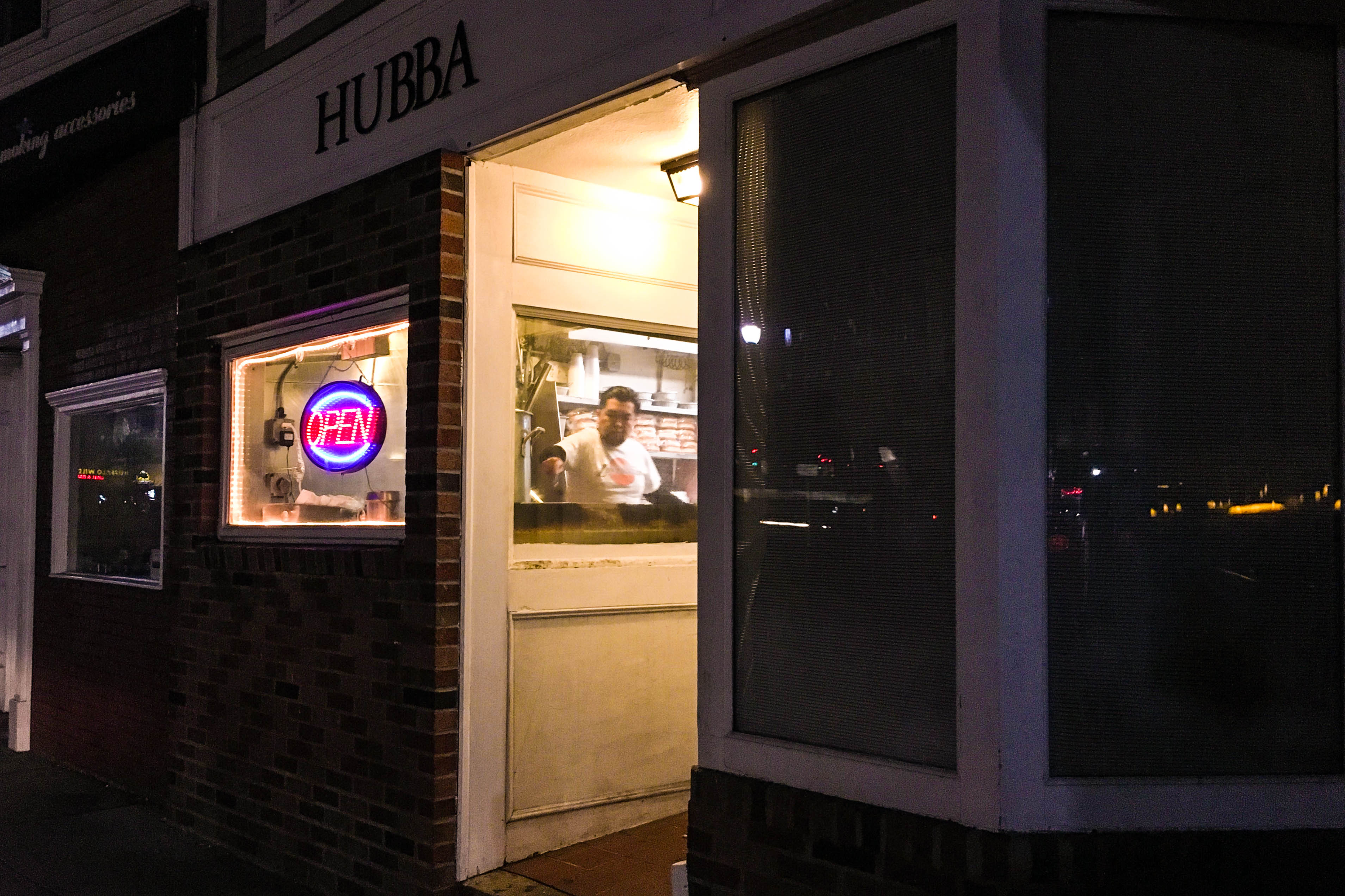 Entrance to Hubba, in Port Chester, New York.